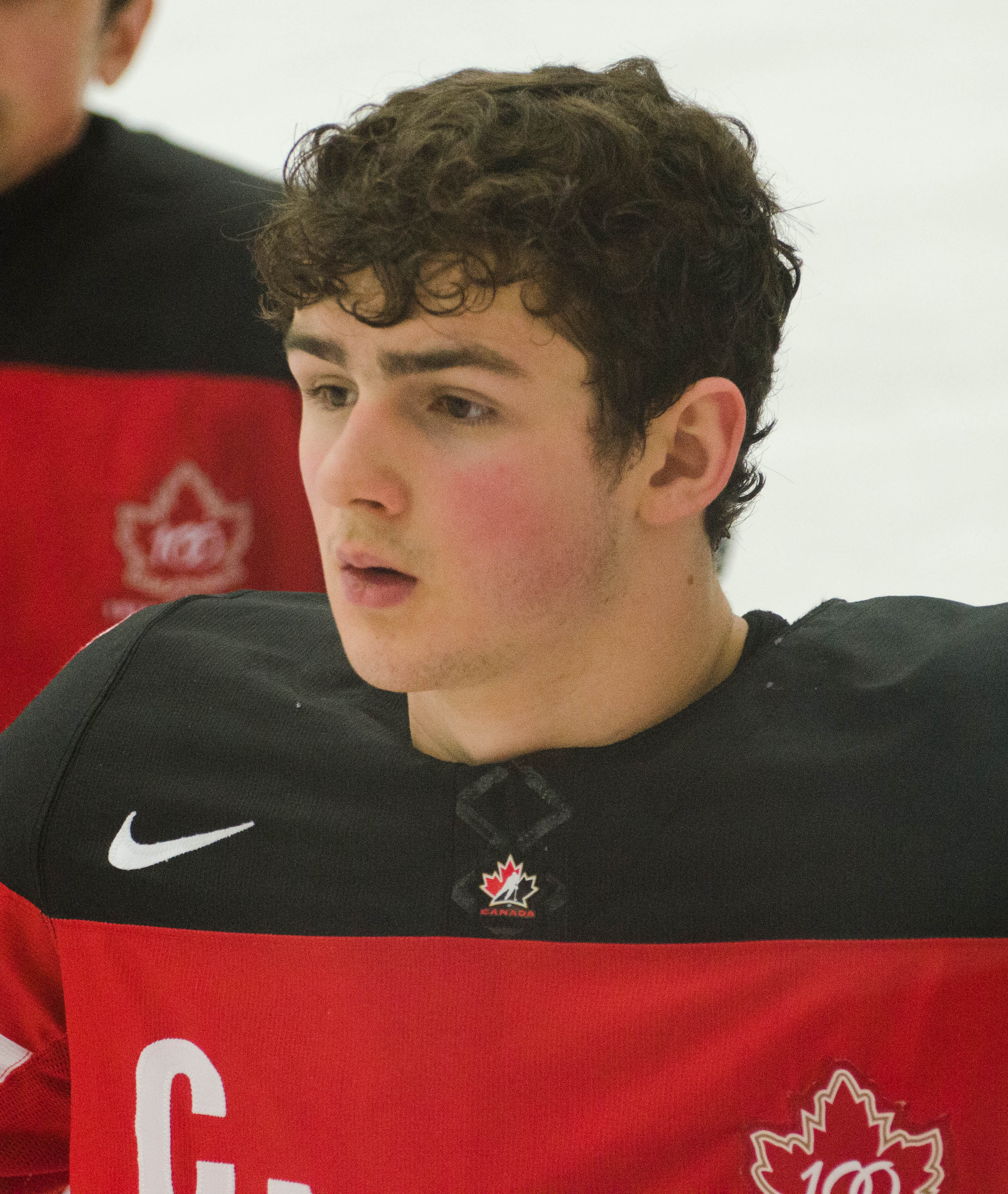 Ben Delaney